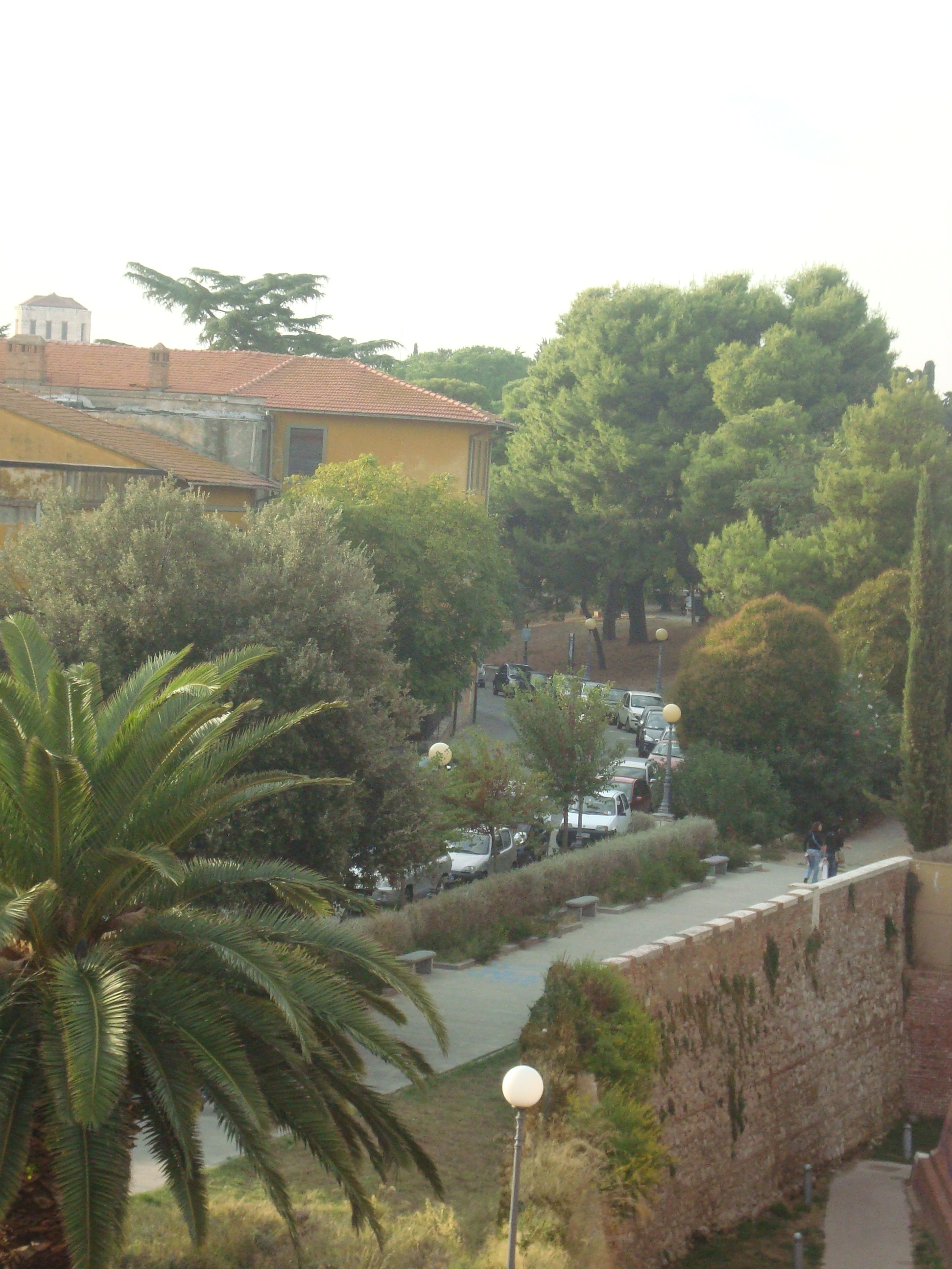 Via Saffi in Grosseto